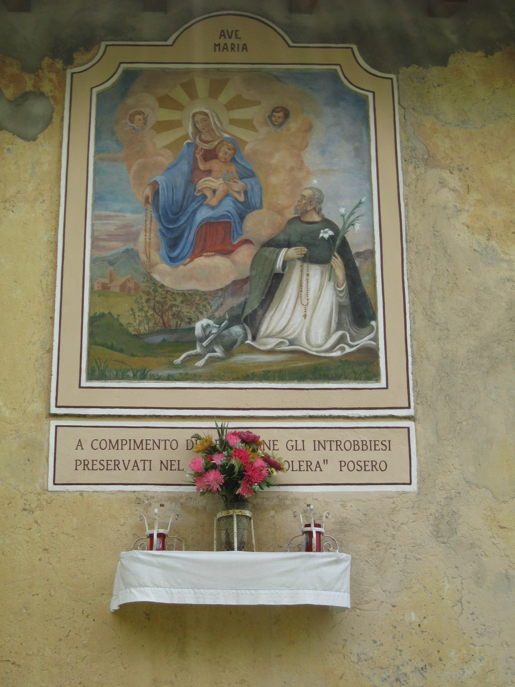 painting on a wall of S. Catherine's church in Introbio, a small town in Lombardy, Italy